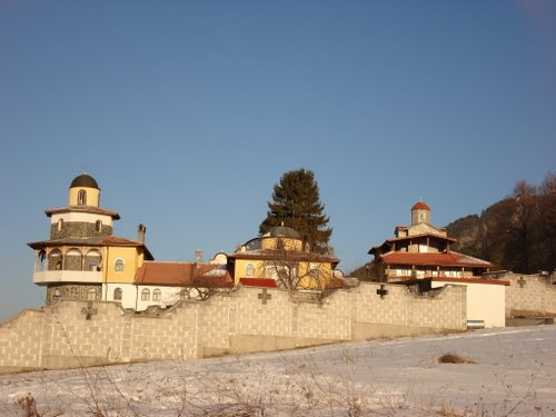 Manastir 239